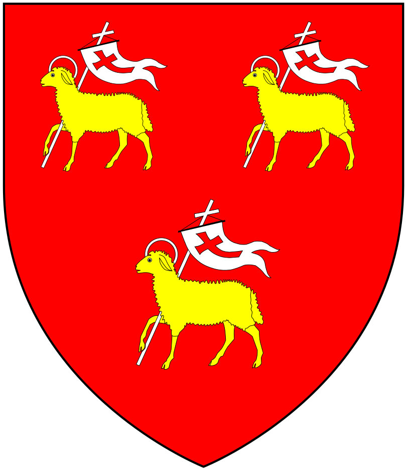 Arms of Rowe of Lamerton in Devon: Gules, three paschal lambs or staff cross and banners argent (Vivian, Lt.Col. J.L., (Ed.) The Visitations of the County of Devon: Comprising the Heralds' Visitations of 1531, 1564 & 1620, Exeter, 1895, p.661). The Poet Laureate Nicholas Rowe (1674-1718) was of this family and these arms are displayed on his monument in Westminster Abbey[1]